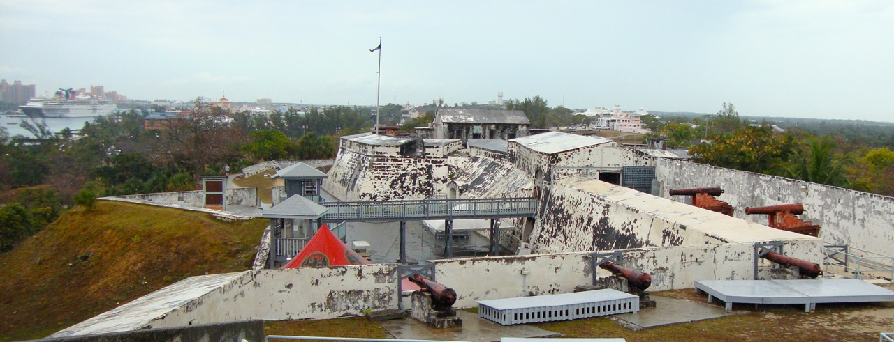 Fort Charlotte, Nassau, The Bahamas looking out over the harbor. Cruise ship port and the Atlantis resort are on the far right of the photo.